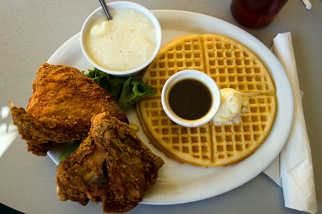 Incredible Kelly with a side of thigh 2 Thighs, Grits, and 1 delicious waffle Home of Chicken and Waffles 444 Embarcadero W Oakland, Calif 94607